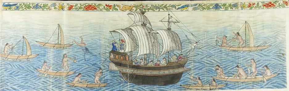 "Reception of the Manila Galleon by the Chamorro in the Ladrones Islands, ca. 1590" English Translated Caption from the book "The Boxer Codex: Transcription and Translation of an Illustrated Late Sixteenth-Century Spanish Manuscript Concerning the Geography, History and Ethnography of the Pacific, South-east and East Asia" by George Bryan Souza and Jeffrey Scott Turley, with comments from Professor Charles Ralph Boxer, the manuscript's namesake. The scene depicts early encounters of the Spanish Manila Galleon with the Chamorro inhabitants of the Marianas Islands, called by the Spaniards as "Ladrones" meaning thieves, circa 1590 AD within the Boxer Codex, as its first illustration in the first few pages. It is a foldout (24 in. by 8 in. or 61 cm. by 20 cm.), the only one in the Codex which depicts a trading encounter between a Manila Galleon and "Ladrones" (Chamorro) in outrigger canoes.